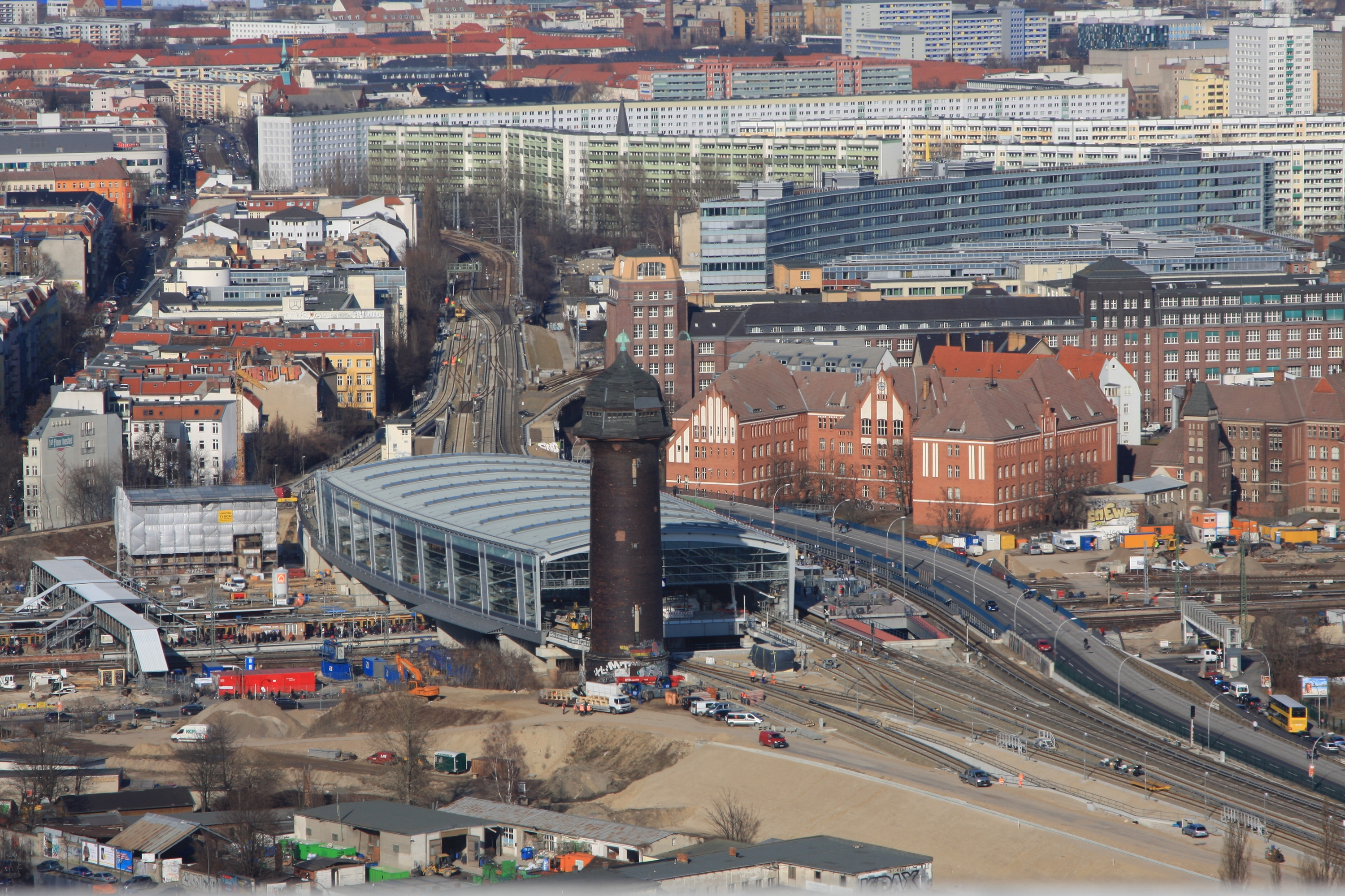 Berlin, Ostkreuz